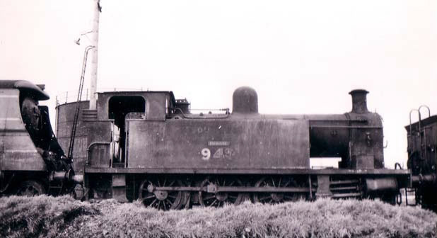 Steam Tank Engine "Hecate" No: 949. Photographed at Eastleigh Near Southampton 1950. Southern 0-8-0Tank Loco 949. Built in 1904. This engine was allocated British Railways No. 30949, but scrapped in 1950 without being renumbered. In 1932, as it was too heavy for the line the Kent and East Sussex Railway exchanged it with the Southern Railway for a Beattie 0-4-0ST.